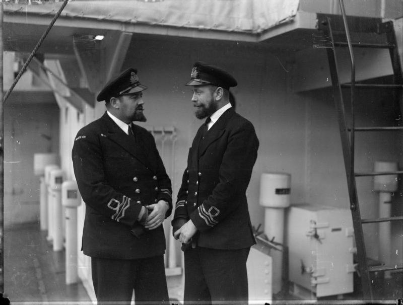 New Zealand High Commissioner Visits Corvette. 24 February 1944, Greenock. the New Zealand High Commissioner, Mr Jordan, Paid a Visit To New Zealand's New Flower Class Corvette, Hmnzs Arabis. Lieutenant Commander J H Seelye, RNZNVR, of Dunedin, the Commanding Officer of the ARABIS (right), with Lieutenant Commander J A Rhind, RNZNVR, of Lyttelton, NZ.